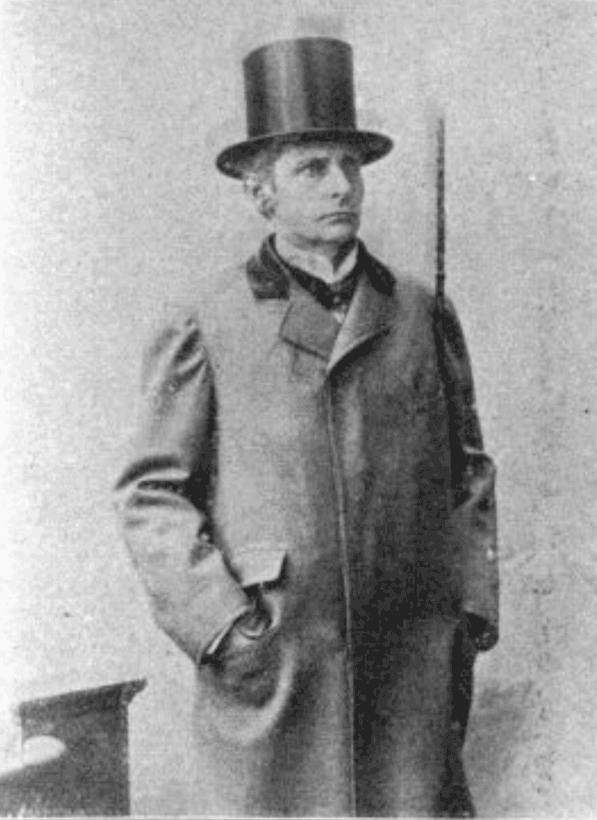 Ludwig Martinelli, actor and producer